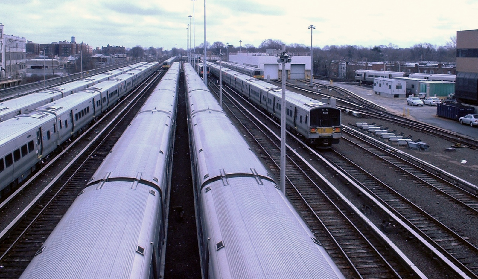 Looking east from the overpass at the Hillside Maintenance Facility. The station platform is visible to the far left. M7 and M3 cars sit in the yard.